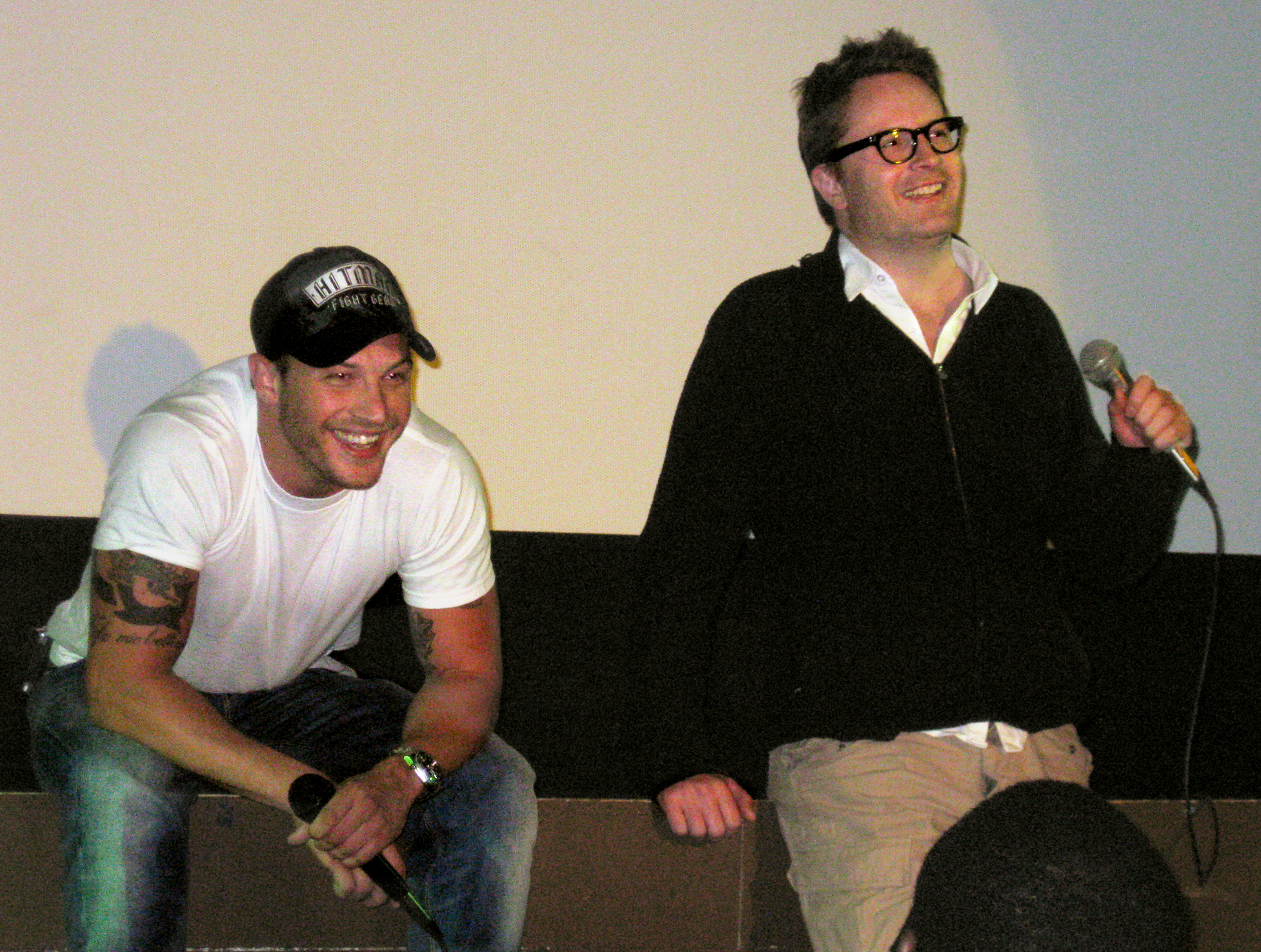 Actor Tom Hard and director Nicolas Winding Refn